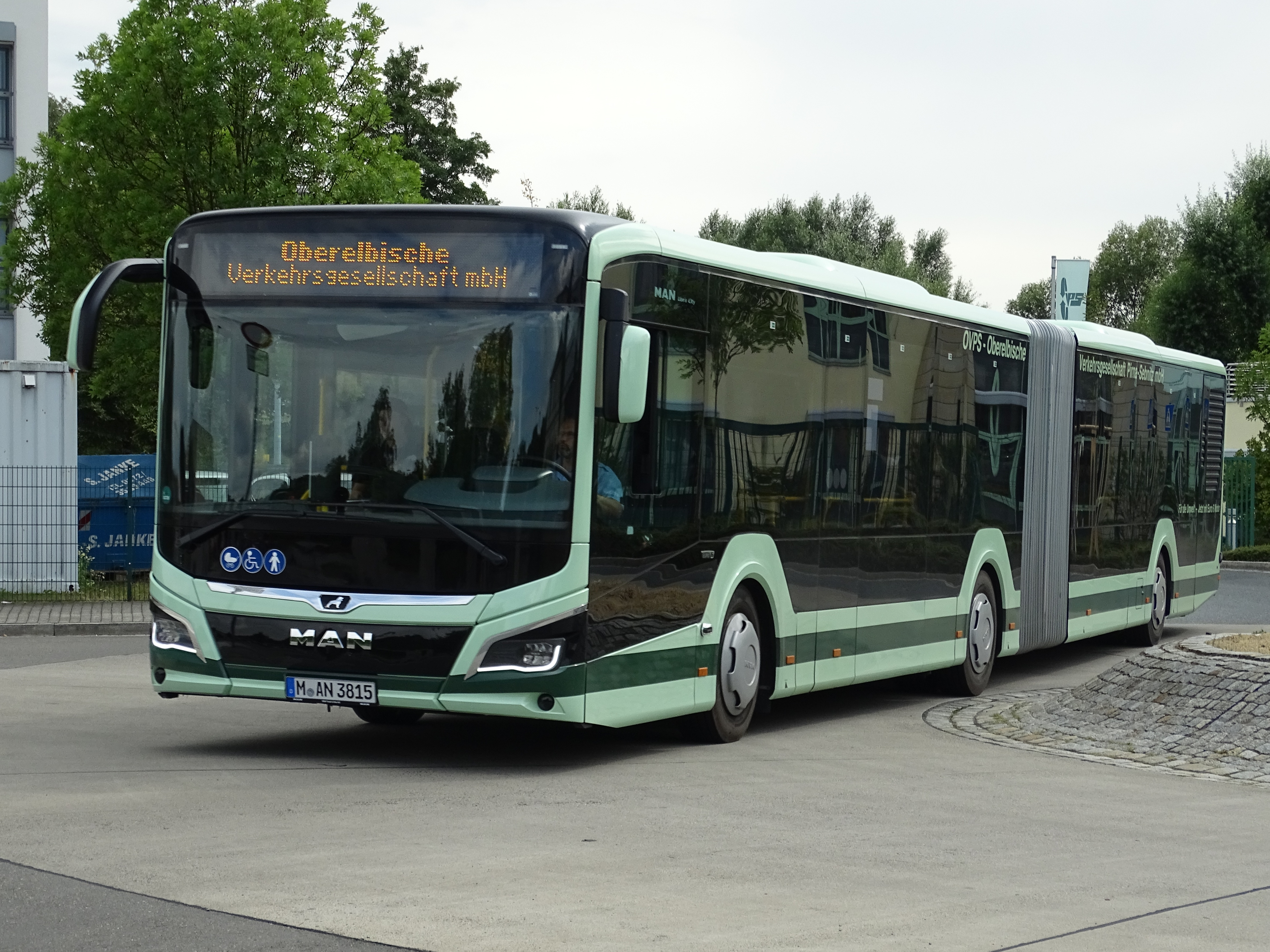 MAN LionsCity 18C OVPS Busbahnhof Pirna